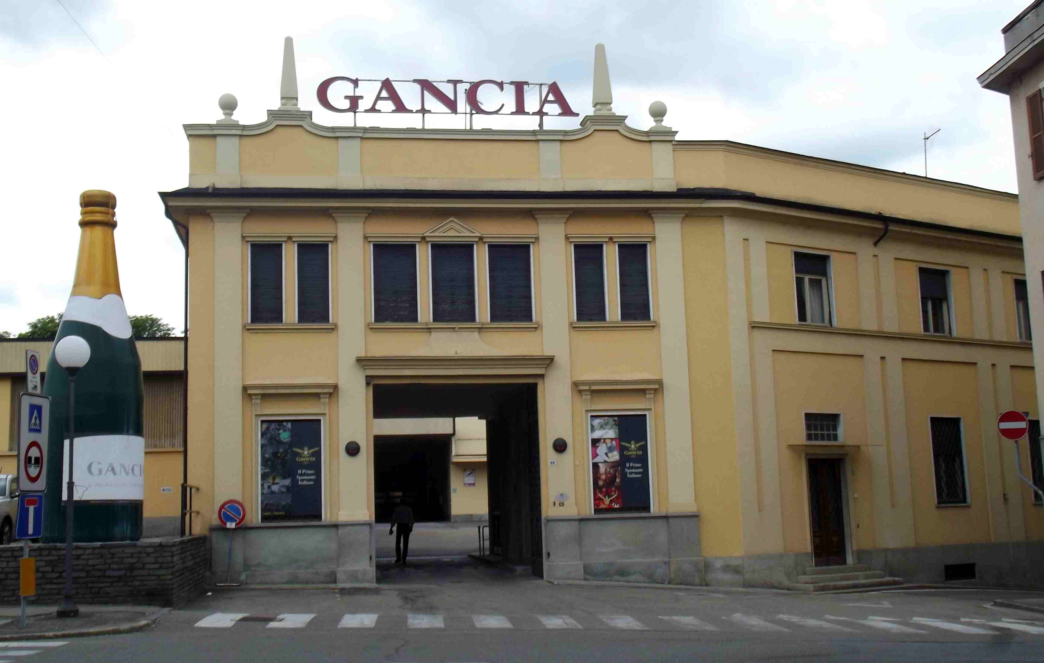 Canelli (AT): old Gancia plant